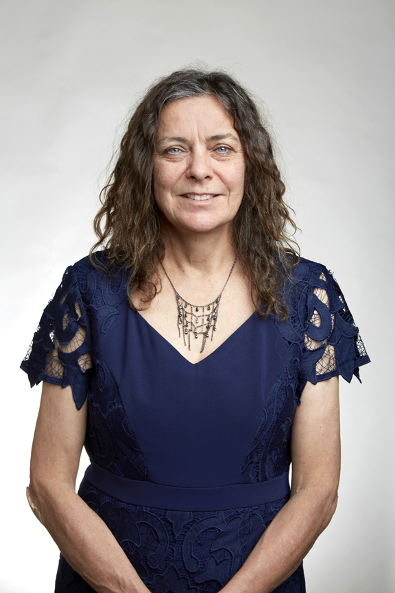 Jillian Fiona Banfield is Professor at the University of California, Berkeley with appointments in the Earth Science, Ecosystem Science and Materials Science and Engineering departments Attribution: The Royal Society